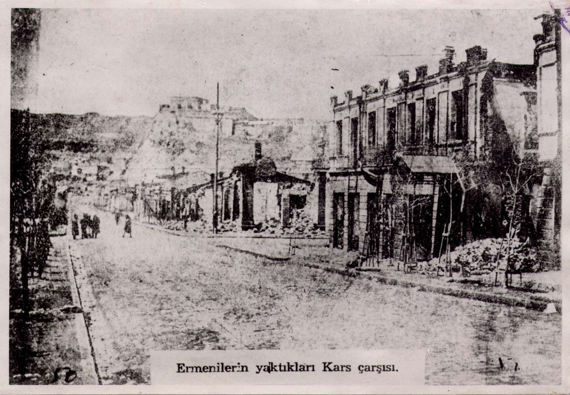 Kars shopping district burned down during Caucasus Campaign in WWI